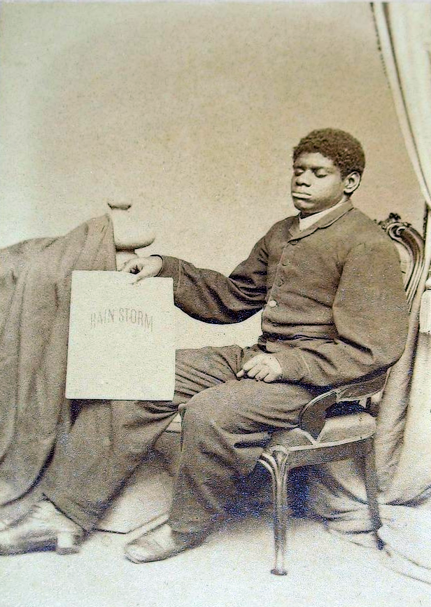 Blind Tom Wiggins holding a copy of his first musical composition, The Rain Storm.